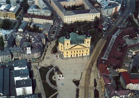 debrecen, Hungary, aerialphotography